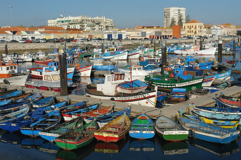 Fishing harbour in Setúbal, Portugal. Photographer: Osvaldo Gago